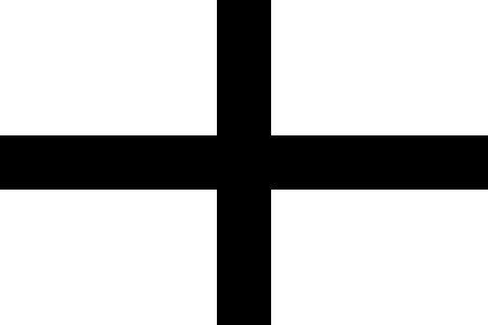 The Kroaz Du, the Black Cross flag used in Brittany.